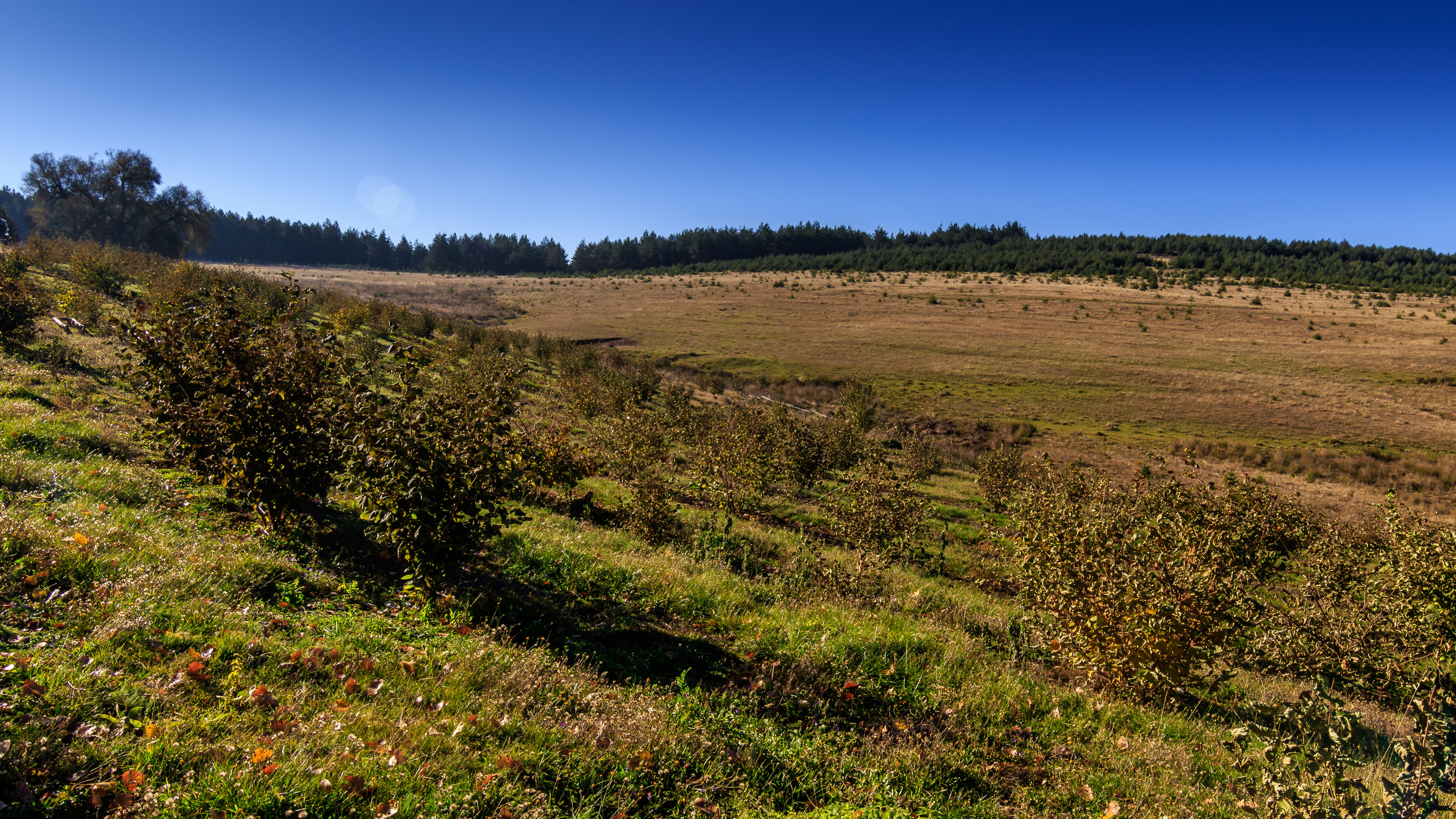 View of the surroundings in the village German